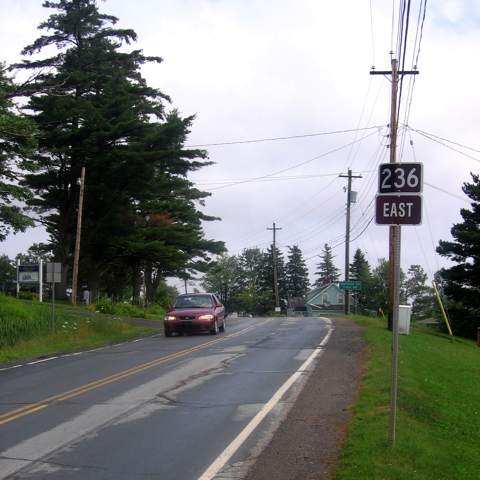 View of NS route 236 in Kennetcook, Nova Scotia